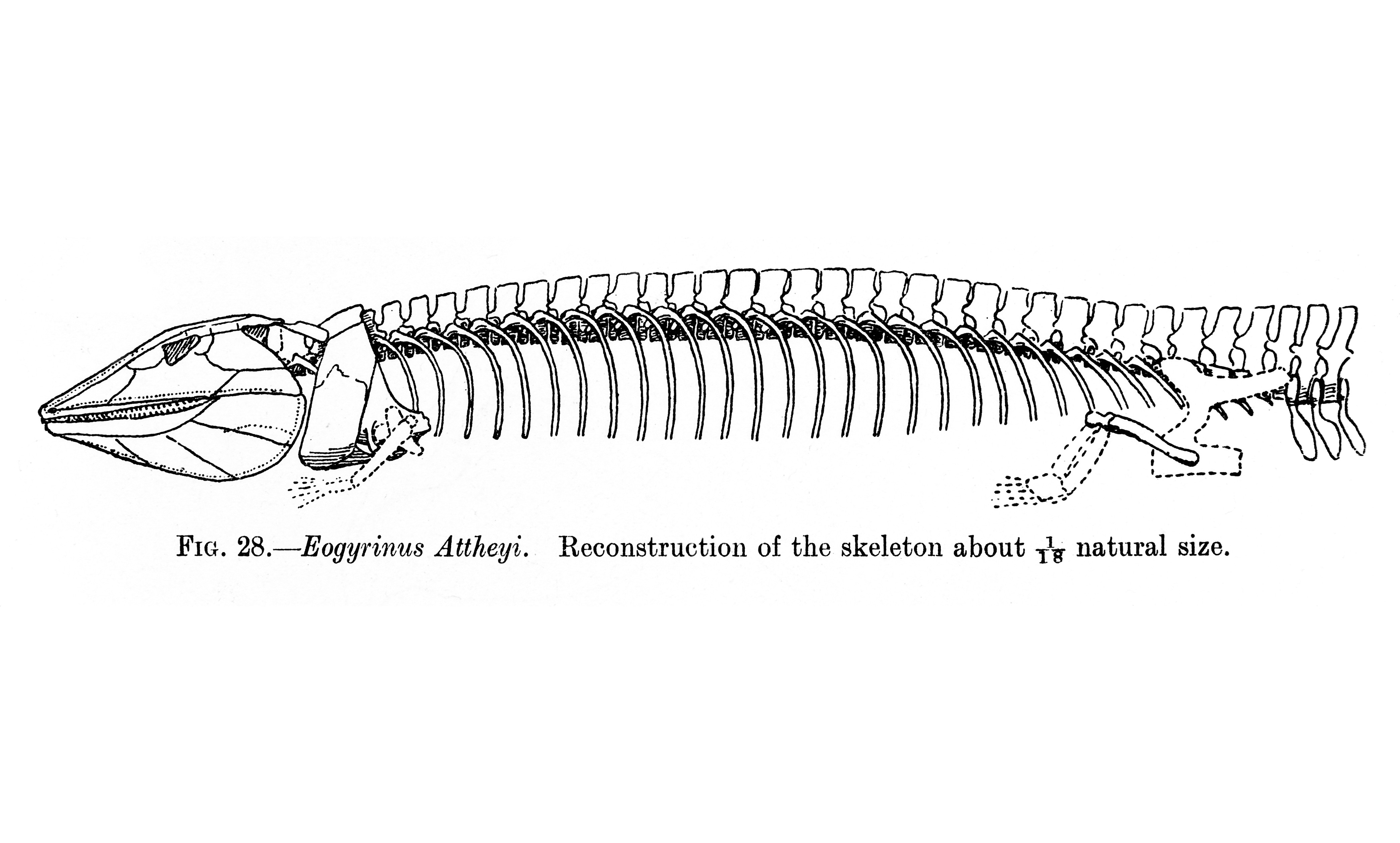 Eogyrinus Attheney. Reconstruction of the skeleton about 1/18 natural size. General Collections